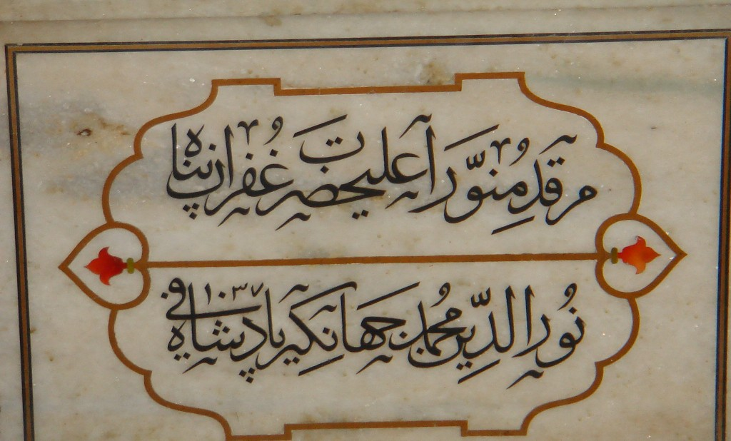 Picture by M Kaiser Tufail, 8 Oct '06